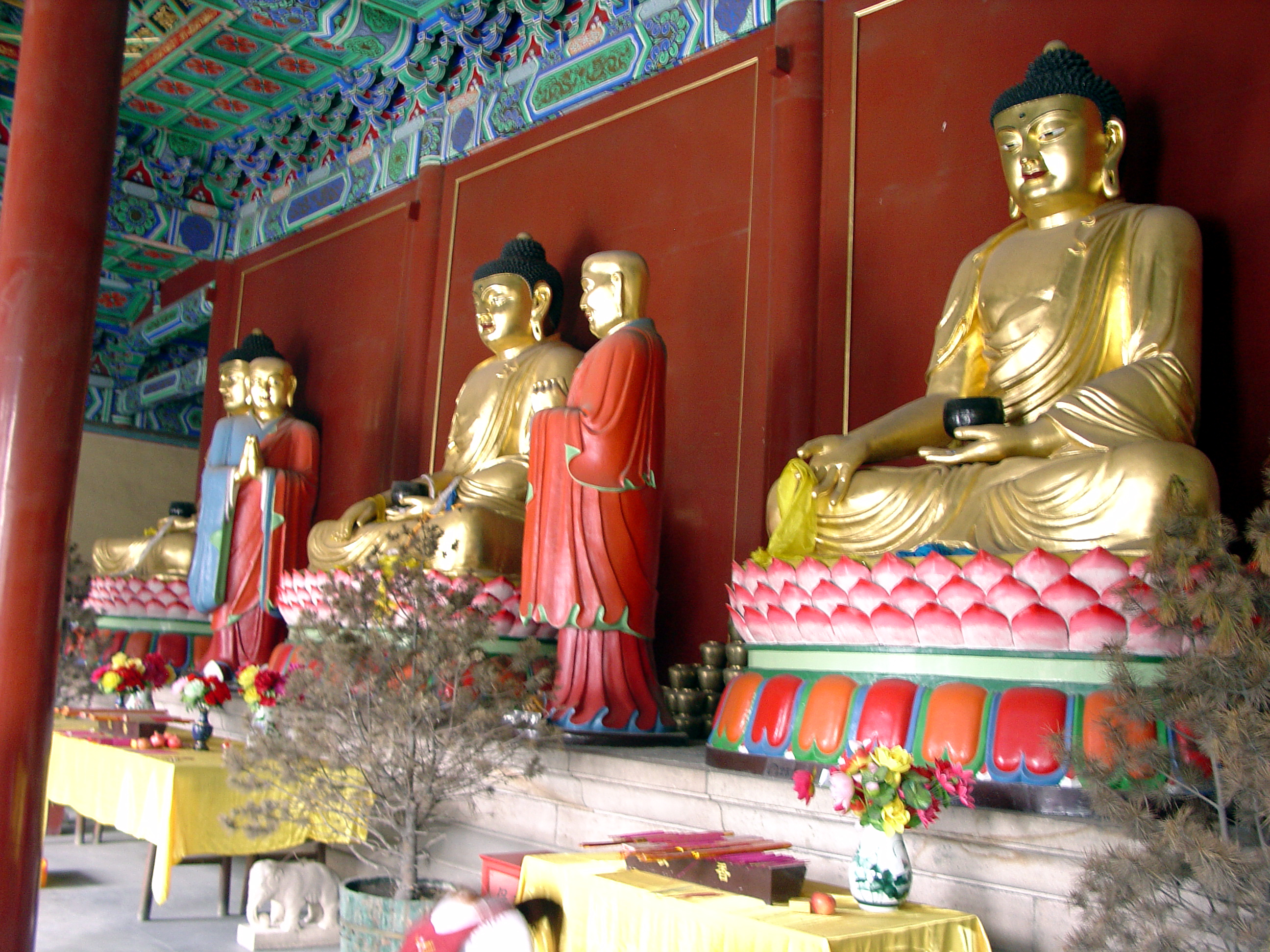 Buddha Images. Bai Ta Si , Beijing Principal images in the main hall include these three seated Buddhas with rice bowl, flanked by Brahma (l.) and Indra (r.).